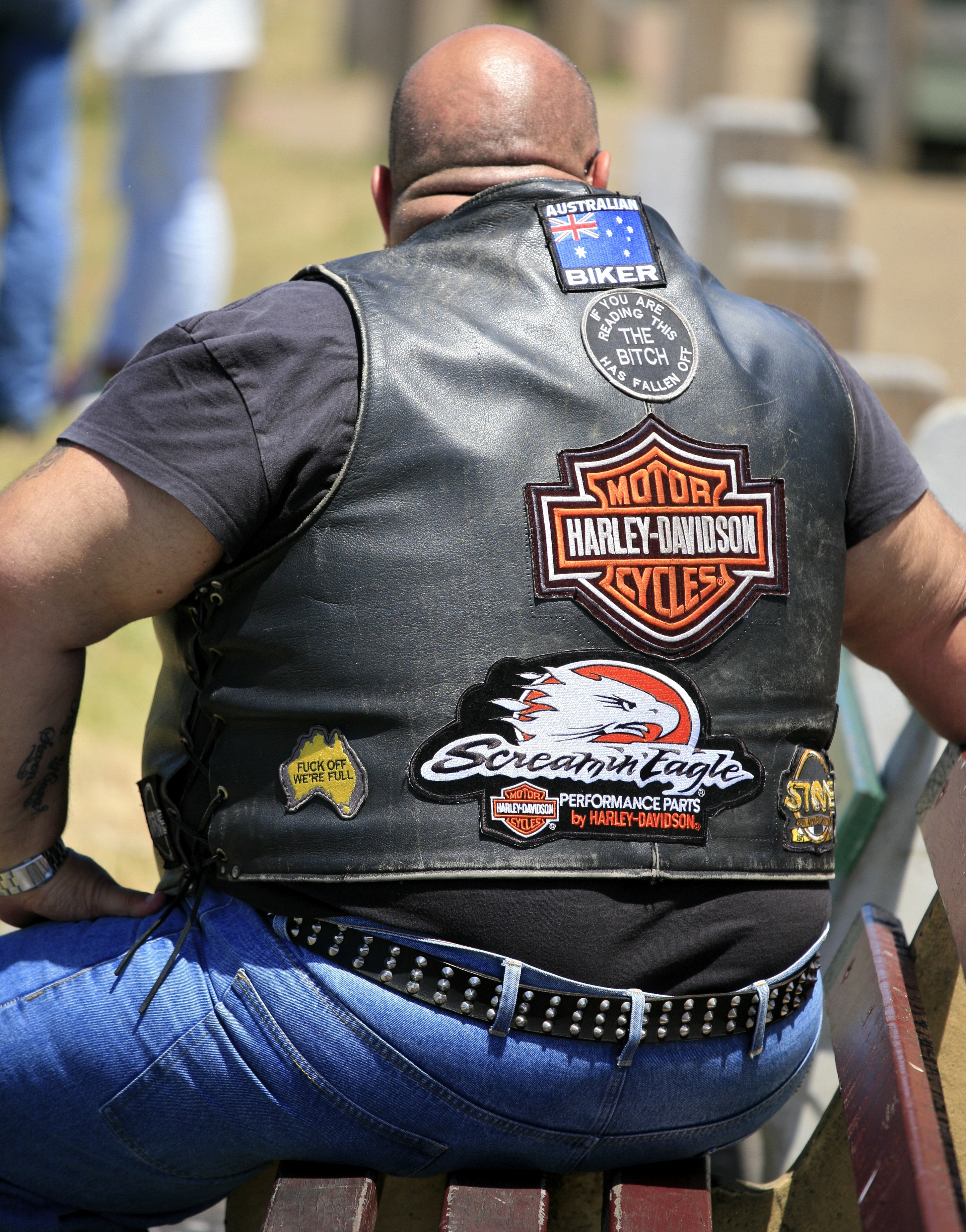 The Australian Biker